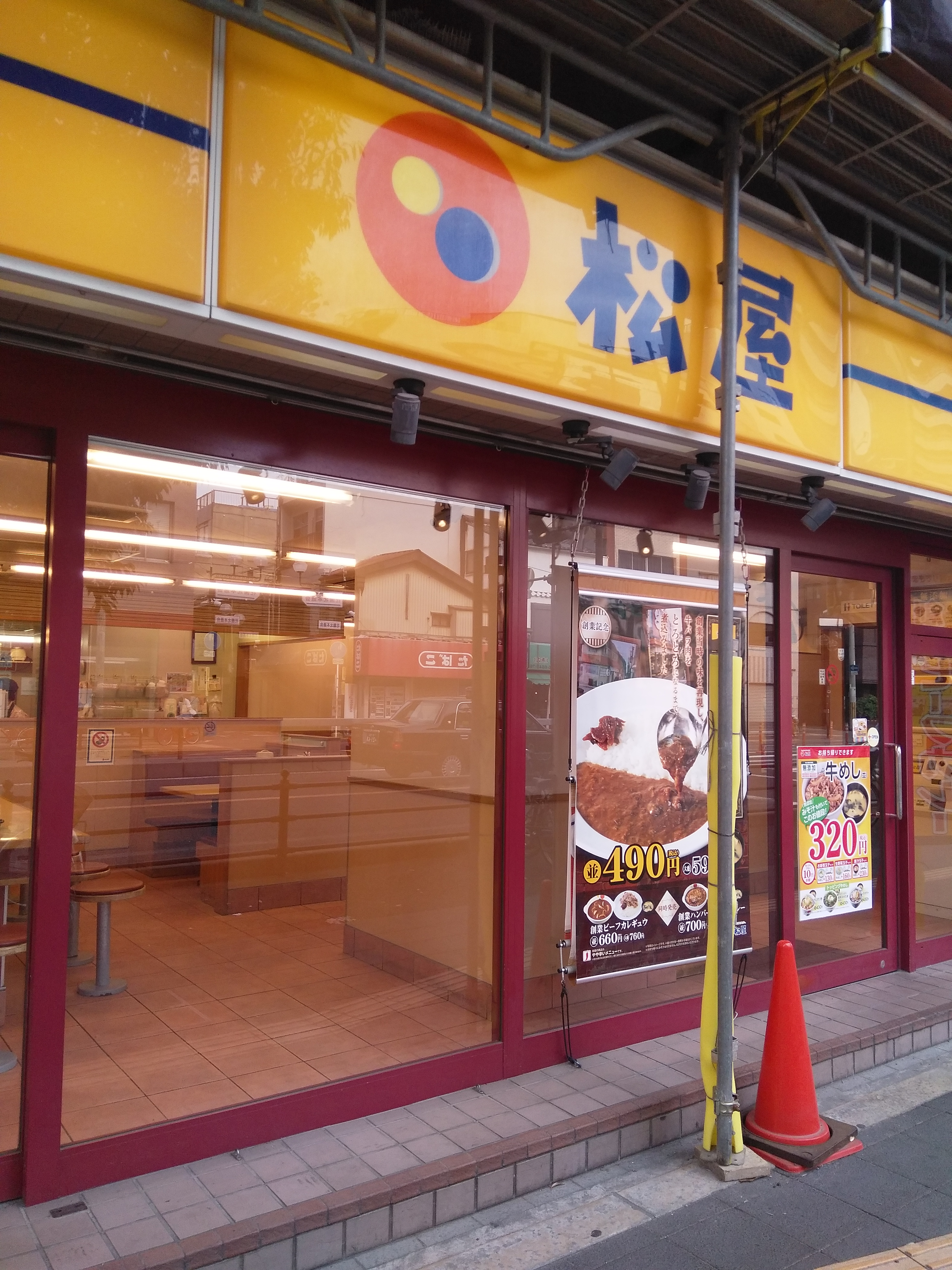 matsuya hanazonocho nishinari